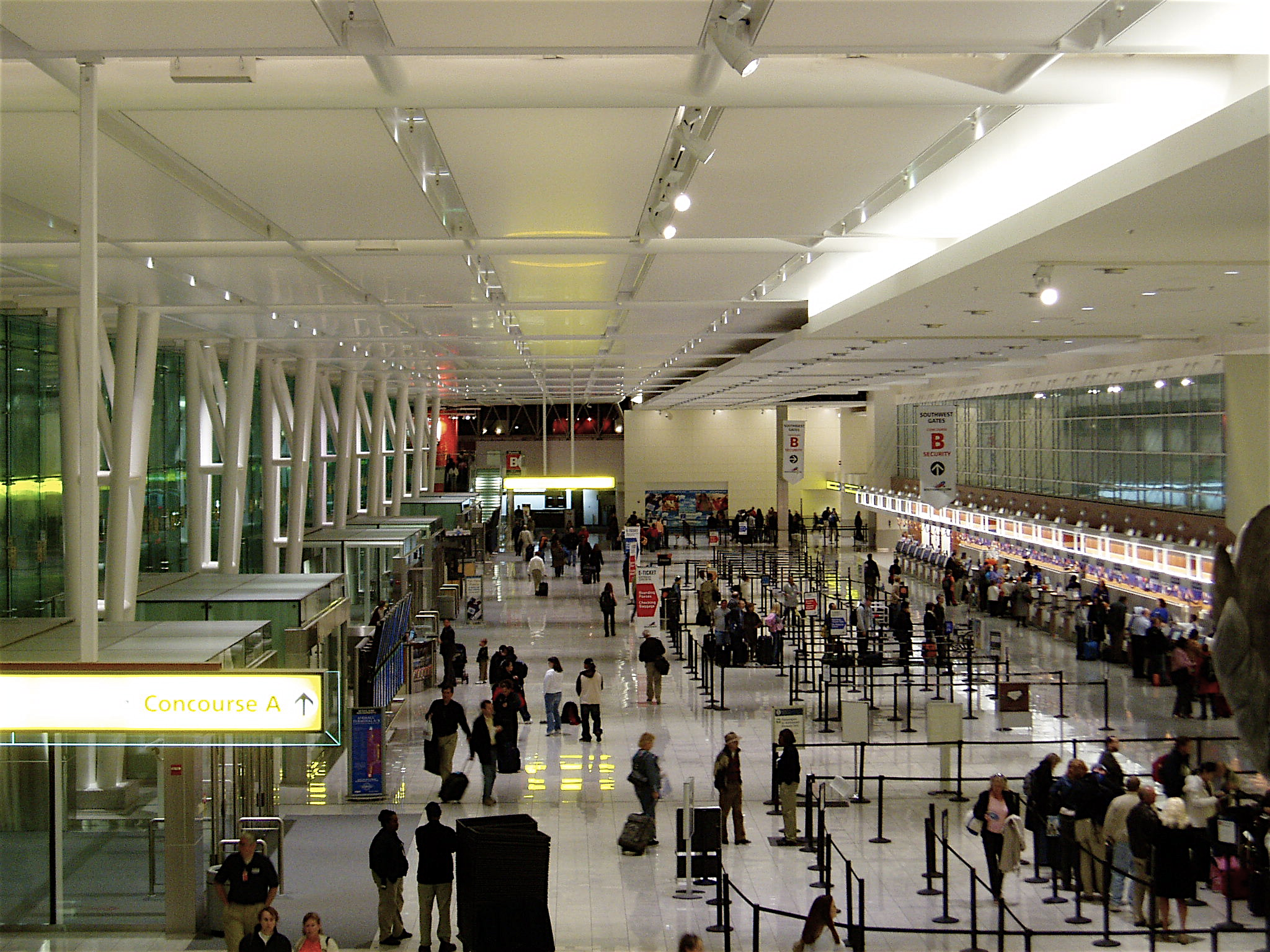 Entry hall of Concourse A-B expansion at Baltimore-Washington International Thurgood Marshall Airport by Southwest Airlines.